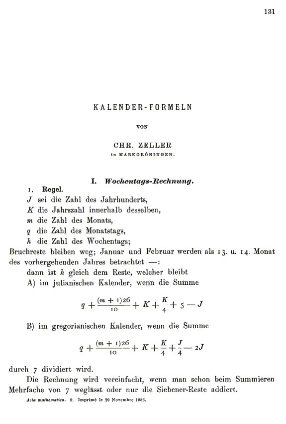 This is a scan of the historical document